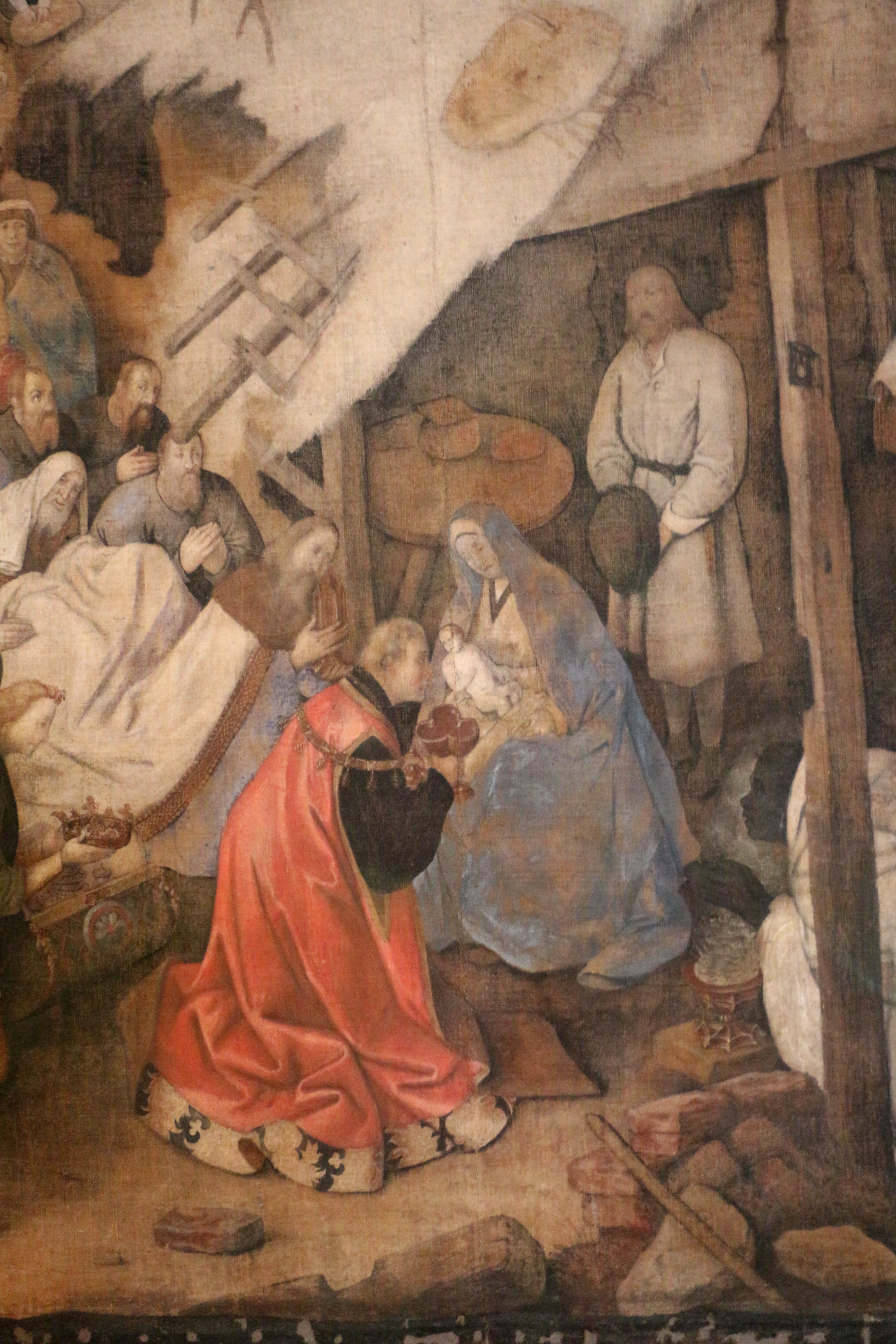 The Adoration of the Kings by Pieter Bruegel the Elder (Royal Museums of Fine Arts of Belgium)